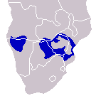 Distribution of Mopane